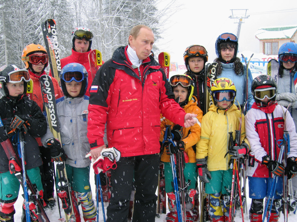 “Russia's president in Krasnaya Polyana”. Russian President Vladimir Putin has his photograph taken with children vacationers while visiting the Krasnaya Polyana ski resort in Sochi, on the Russian Black Sea coast.